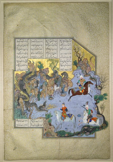 The Shahnameh or ‘Book of Kings’ in ink, opaque watercolor and gold on paper, depicts Faridun in the guise of a dragon testing his sons. This is an illumination from the Shah Tahmasp Shahnameh that was completed at the royal Safavid atelier circa 1525-1535